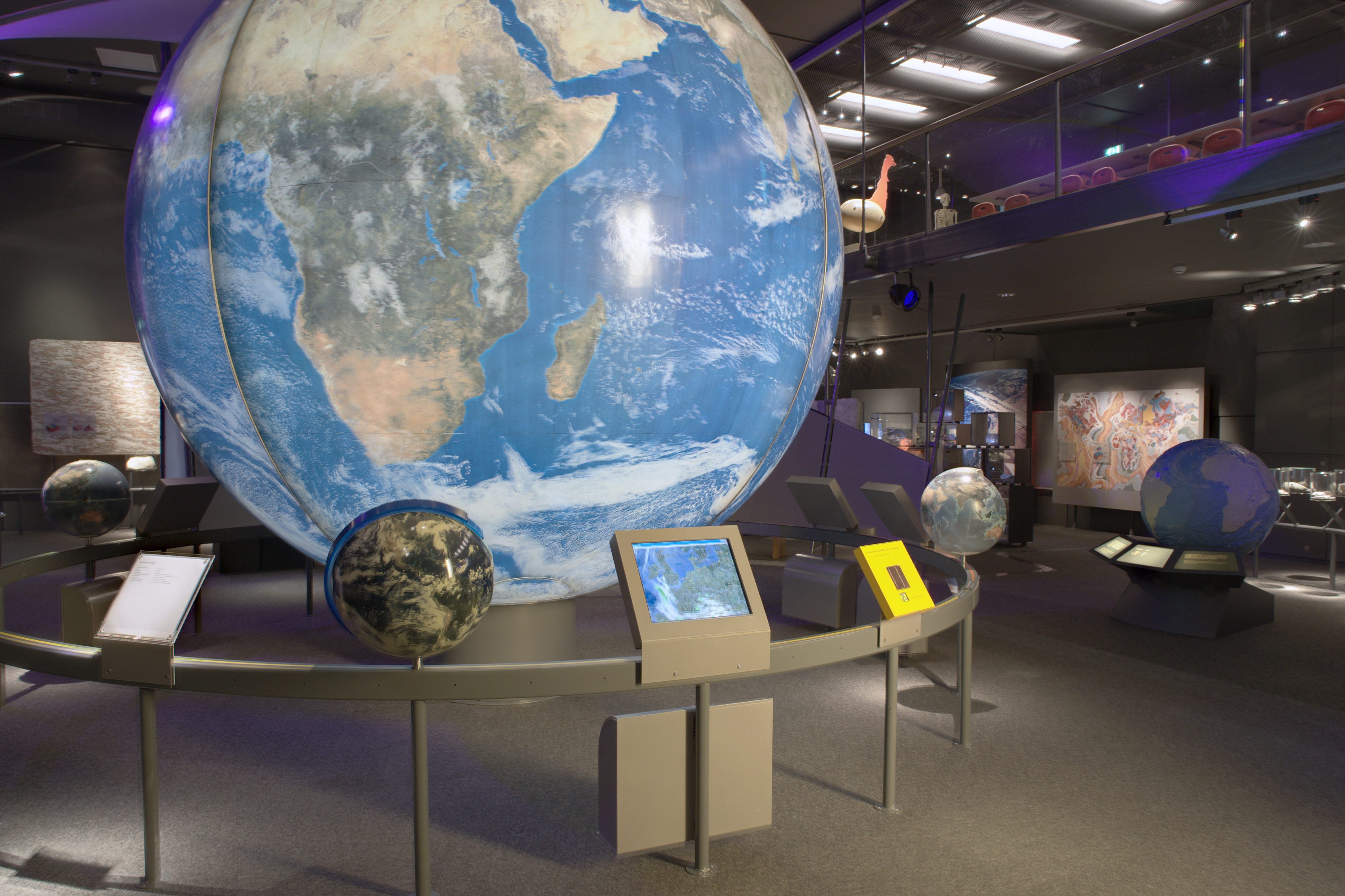 Natural history museum Naturalis, Leiden. Exhibition Earth. Huge globe with Africa showing, overview.